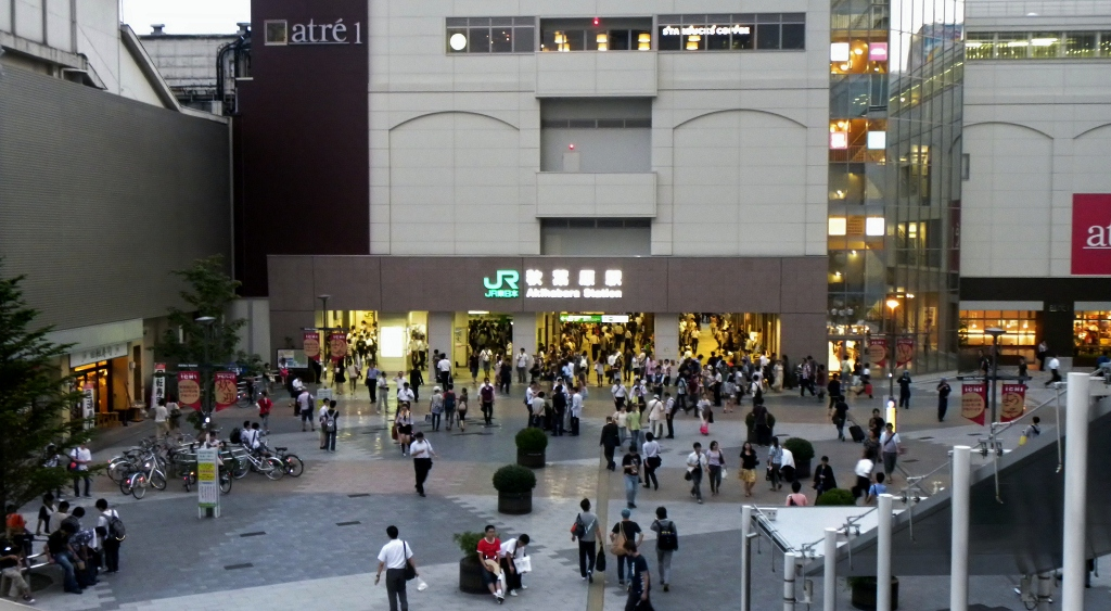 Akihabara Electric Town Exit